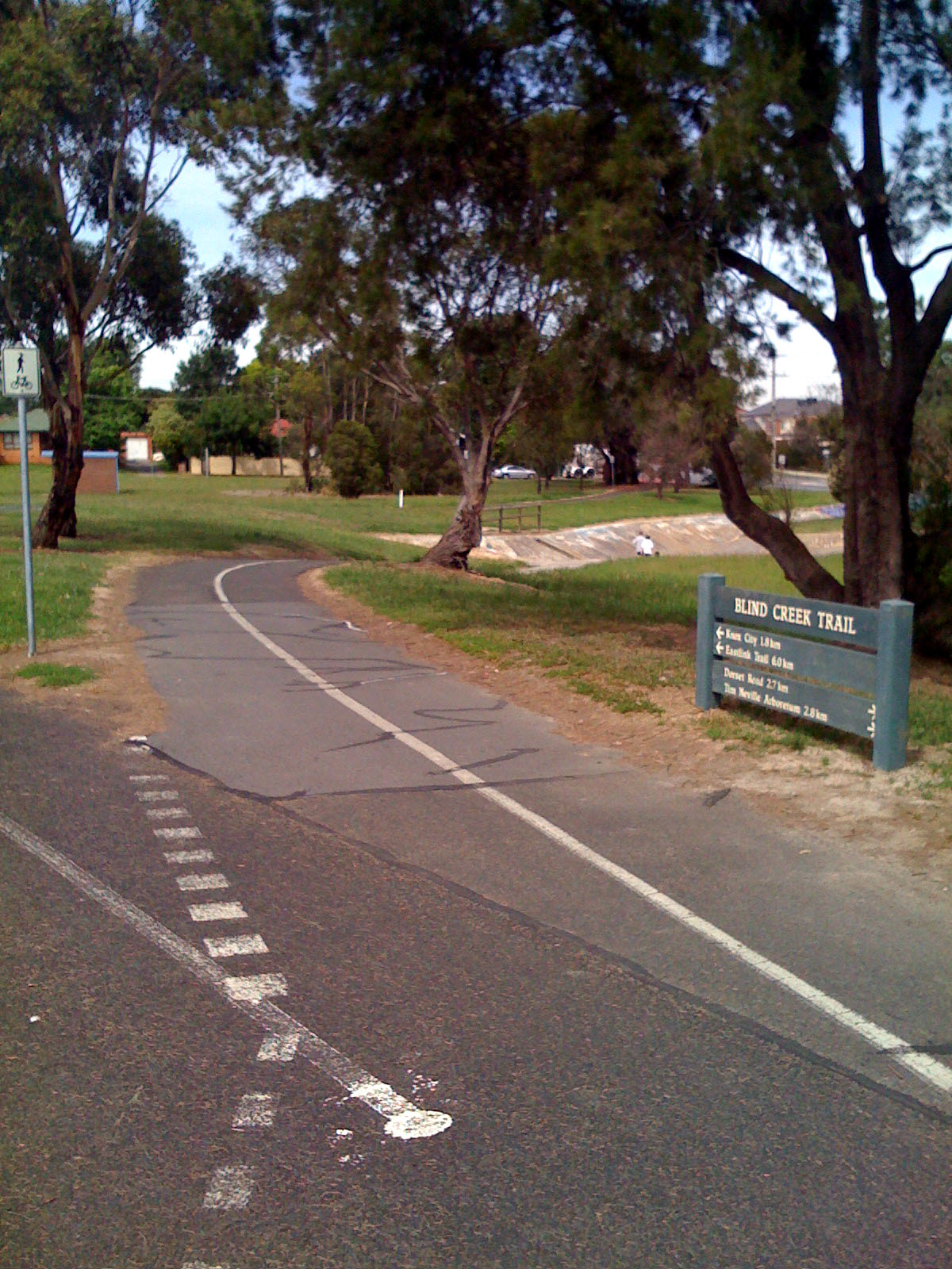 The Blind Creek Trail near Scoresby Road in Ferntree Gully, Victoria, Australia. Taken by myself. Can be used for any reason for any purpose.